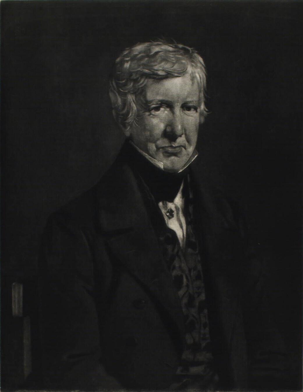 Christian Detlev Reventlow (1775-1850), Danish politician. After an original portrait by Christian Albrecht Jensen